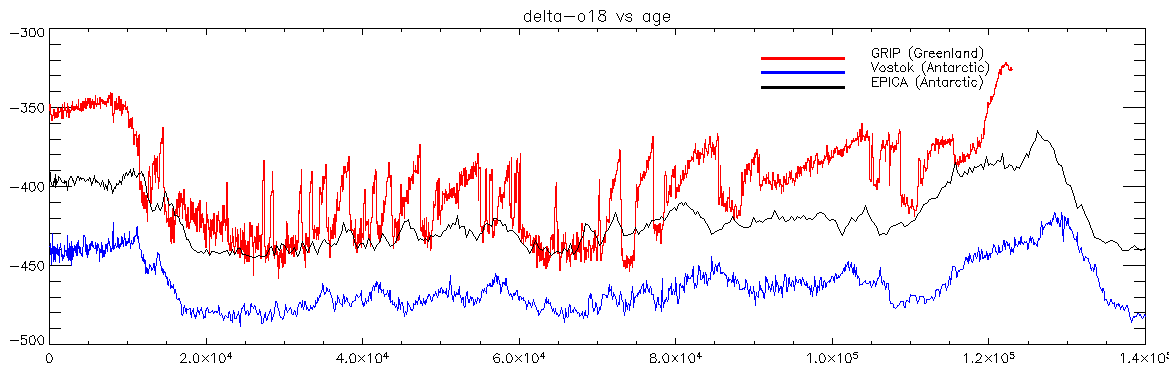 From the Vostok and EPICA (Antarctica) and NGRIP (Greenland) ice cores: d-o-18, last 140kyr. d-O-18 is a proxy for temperature: more negative is colder; the period from 20 to 10 kyr shows the rise in temperature at the end of the last ice age. Note the Dansgaard-Oeschger events visible in the NGRIP core but barely, if at all, in the Antarctic cores. The period around 120 kyr is the previous interglacial; before that (140 kyr) is the previous glacial. Horizontal axis: years before present (before 1950?). Vertical axis: delta-O-18. See Image:Epica-vostok-grip-ngrip-o18.png for inclusion of both GRIP and NGRIP data. Note that the image is mislabelled/misnamed, the red graph shows NGRIP, not GRIP data (the red graph in this image corresponds to the green graph in File:Epica-vostok-grip-ngrip-o18.png).